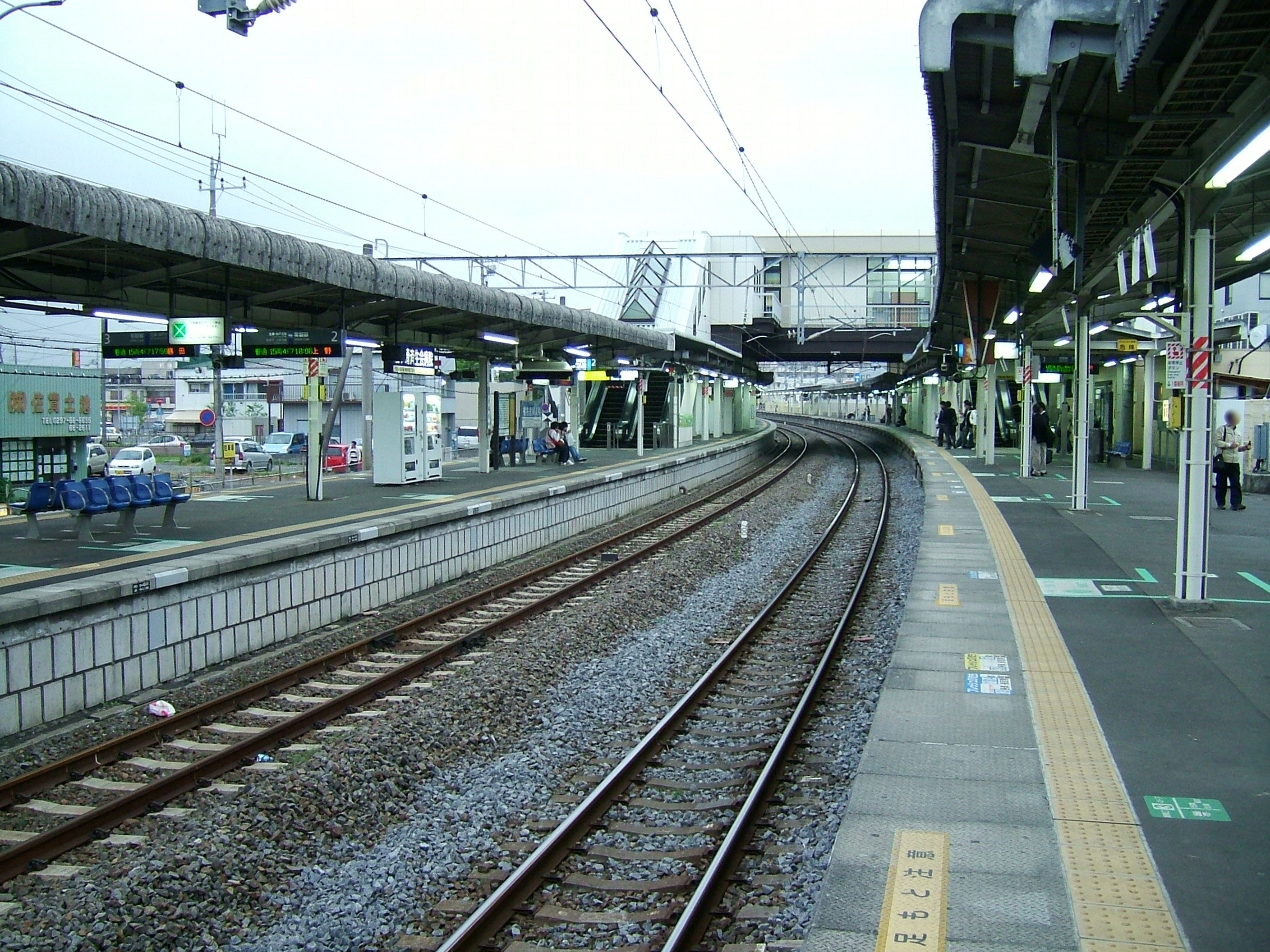 The platforms at Sanuki Station on the East Japan Railway Jōban Line